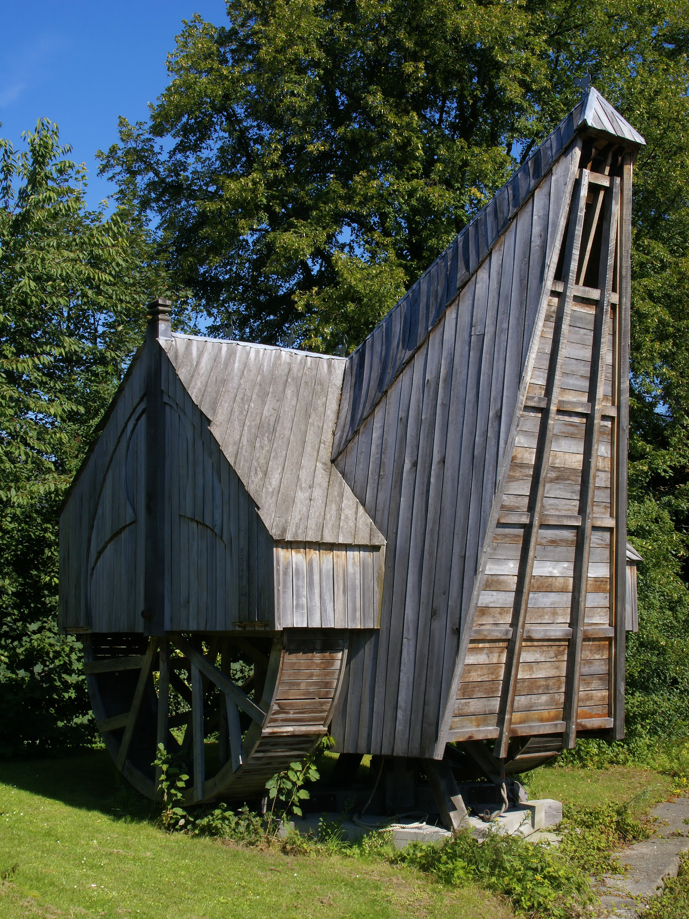 Medieval crane replica, Brugge, Belgium